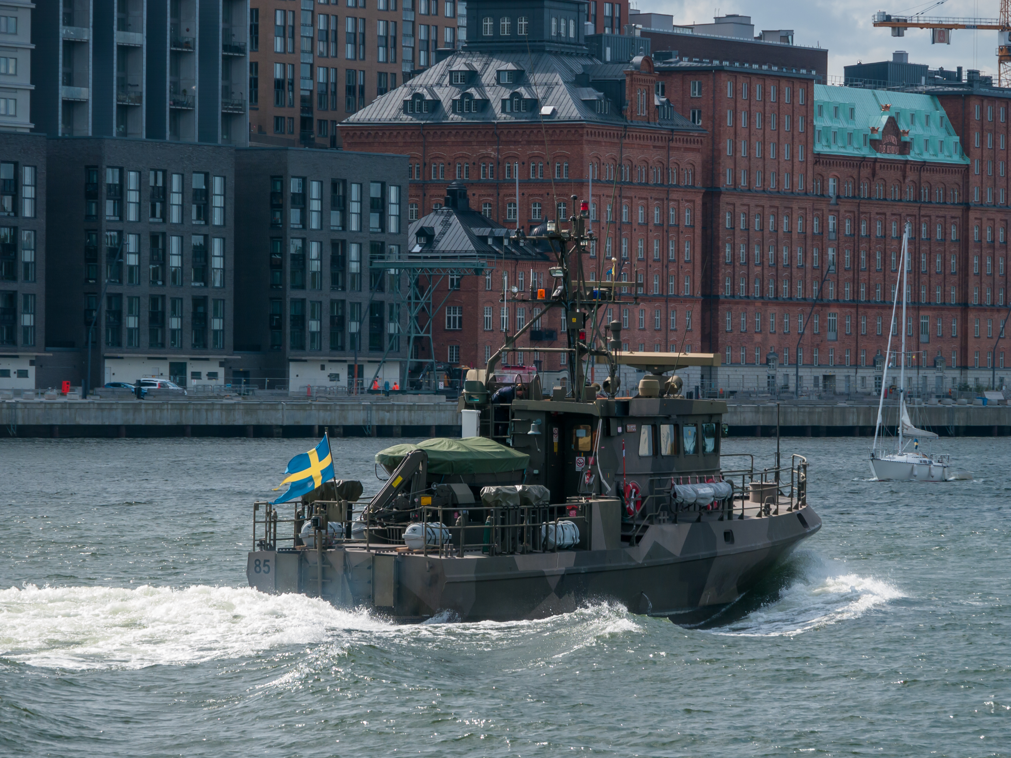 HMS Trygg (85) in Stockholm